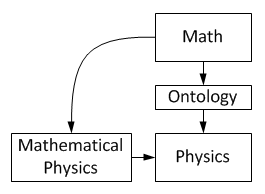 Ontology is a prerequisite for Physics, but not for Mathematics. It means Physics is ultimately concerned with descriptions of the real world, while mathematics is concerned with abstract patterns, even beyond the real world. Thus Physics statements are synthetic, while Mathematical statements are analytic. Mathematics contains hypotheses, while Physics contains theories. Mathematical statements have to be only logically true, while Physics statements must match observed and experimental data. The distinction is clear-cut, but not always obvious. Mathematical physics is the application of Mathematics to Physics. The problems in this field start with a "mathematical model of a physical situation" and a "mathematical description of a physical law". Every mathematical statement used for a solution has a hard-to-find physical meaning; the final mathematical solution has an easier-to-find meaning.